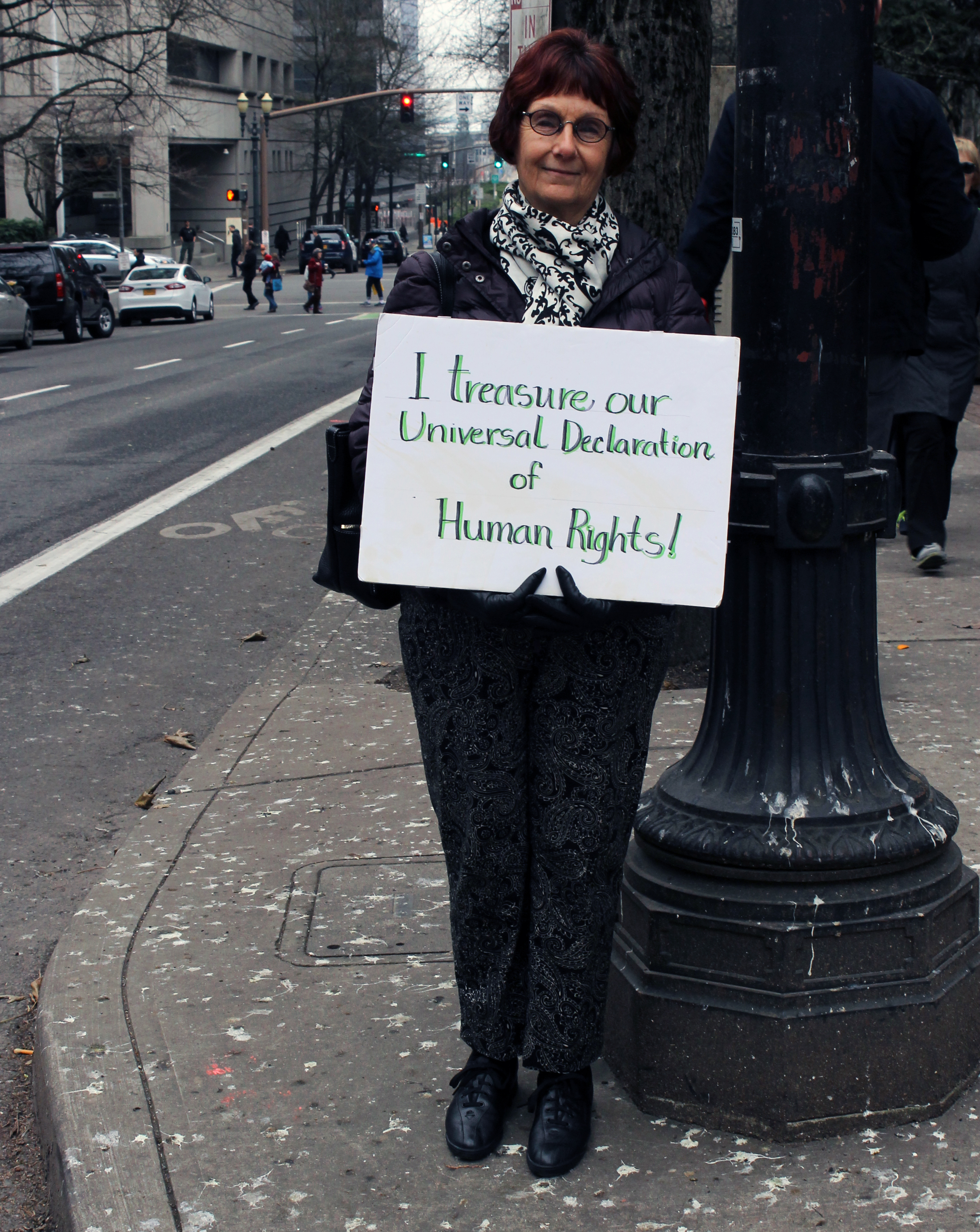 No Ban, No Wall protest in Portland, Oregon.